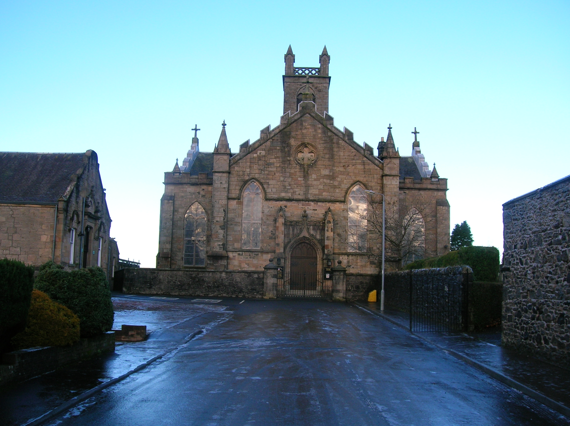 Beith High Church, Beith, North Ayrshire, Scotland